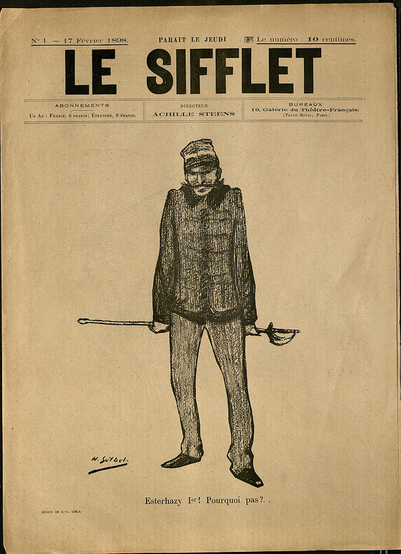 Cover page of the February 17, 1898 issue of Le Sifflet showing a caricature of Ferdinand Walsin Esterhazy.